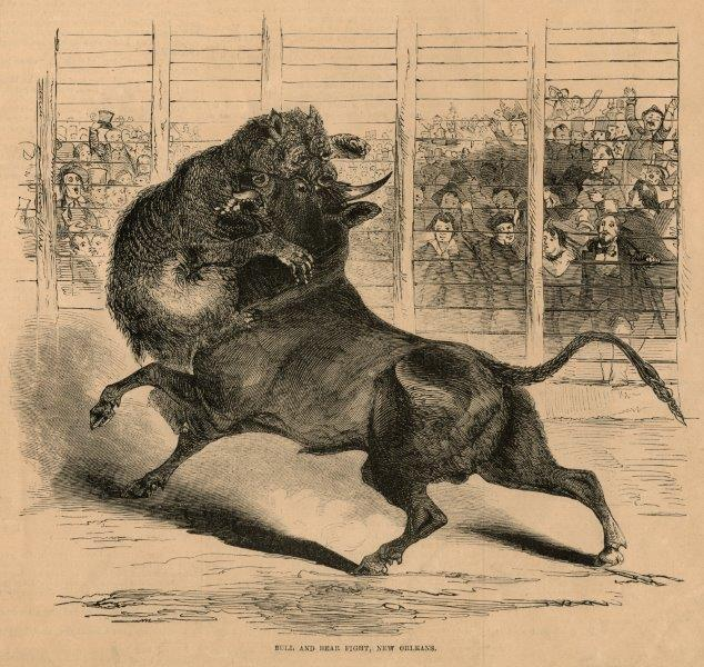 Bull and Bear fight at Algiers, New Orleans, 1853. Illustration.